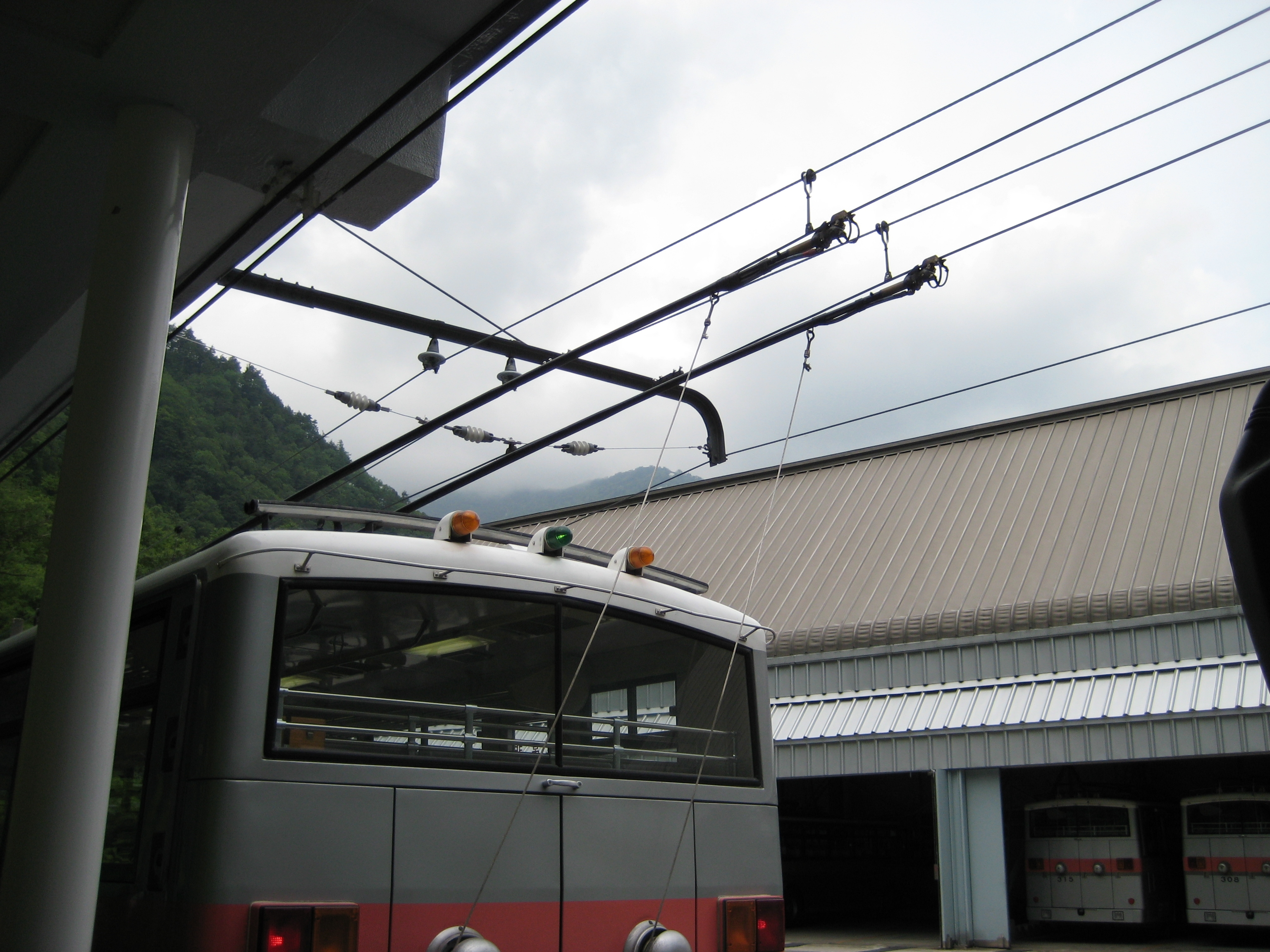 Trolley Pole of Kanden Tunnel Trolley Bus, Japan